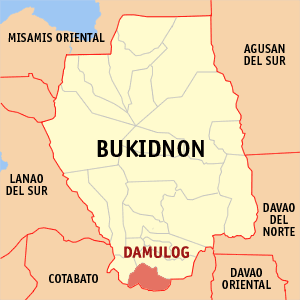 Map of the Bukidnon showing the location of Damulog